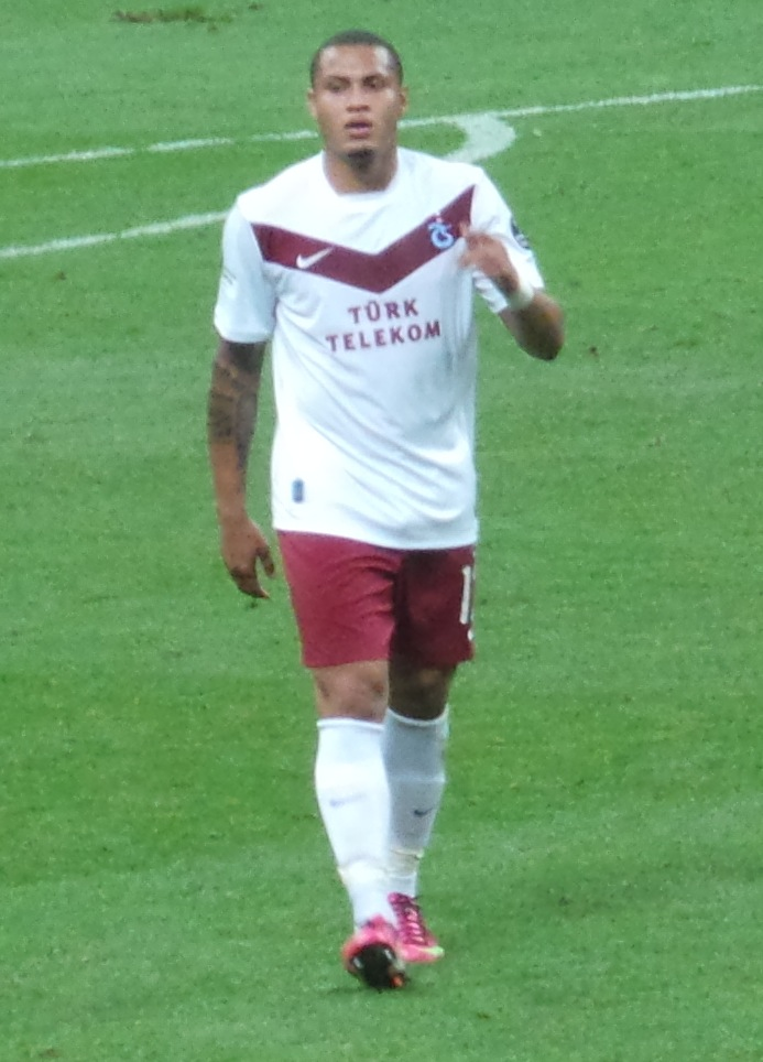 Paulo Henrique @TT Arena